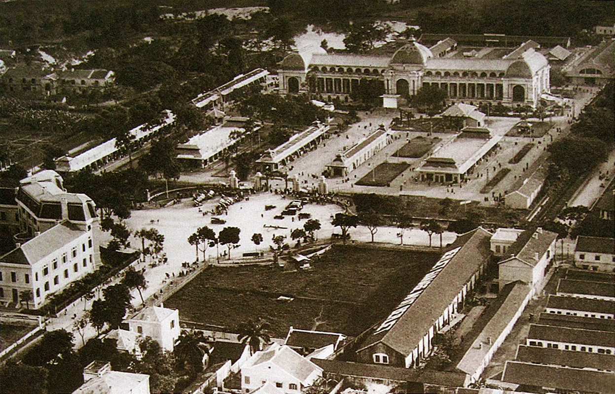 Đấu xảo Hà Nội 1902Tiếng Việt: Nhà Đấu xảo Hà Nội